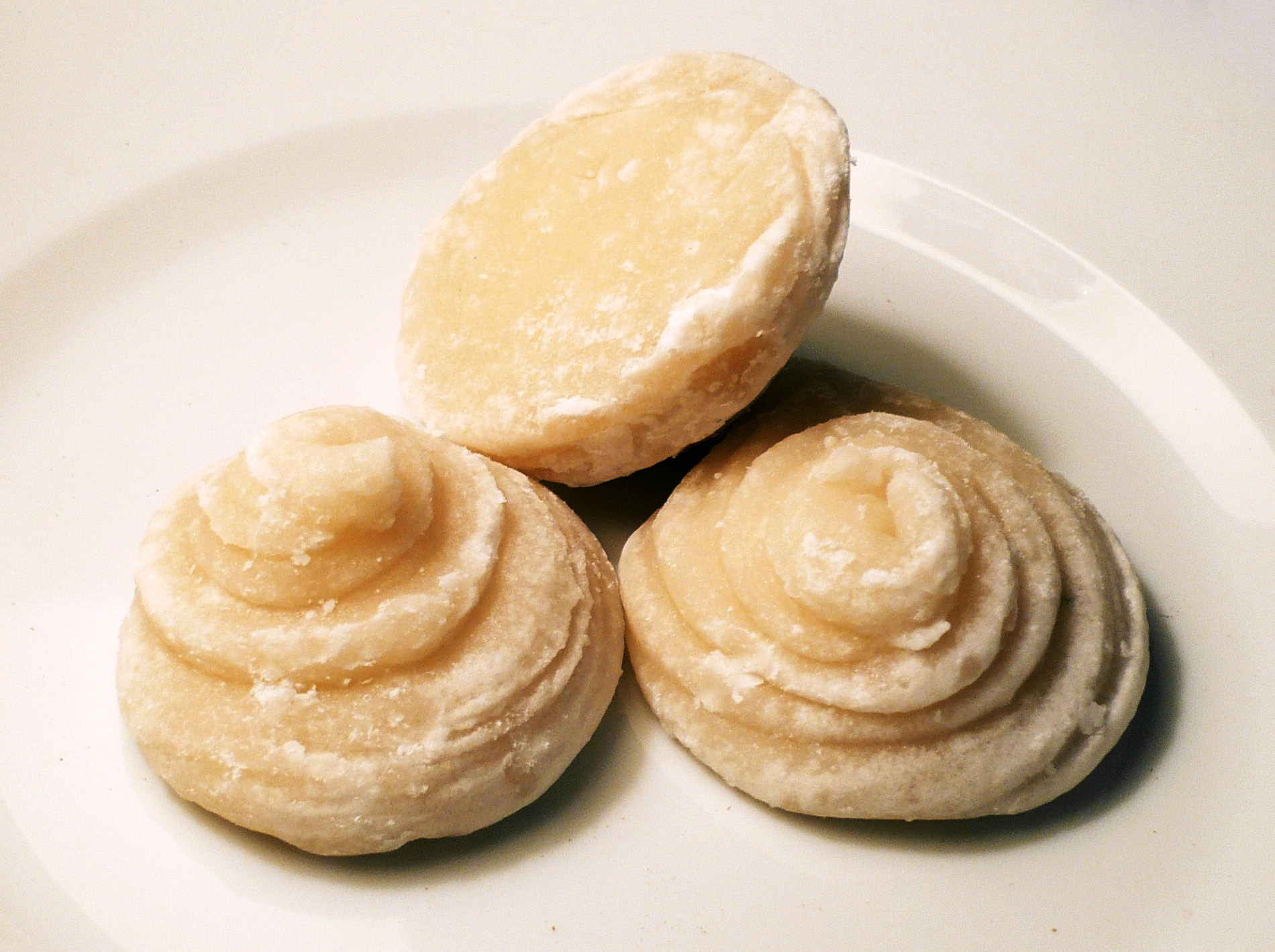 Three cakes of commercially produced palm sugar, in a decorative seashell shape. Photo taken in Kent, Ohio with a Panasonic Lumix digital camera (model DMC-LS75). Palm sugar purchased in a Cleveland, Ohio Vietnamese grocery store. Palm sugar produced in Thailand, and distributed by Gusto Food, Inc. of Maspeth, New York.